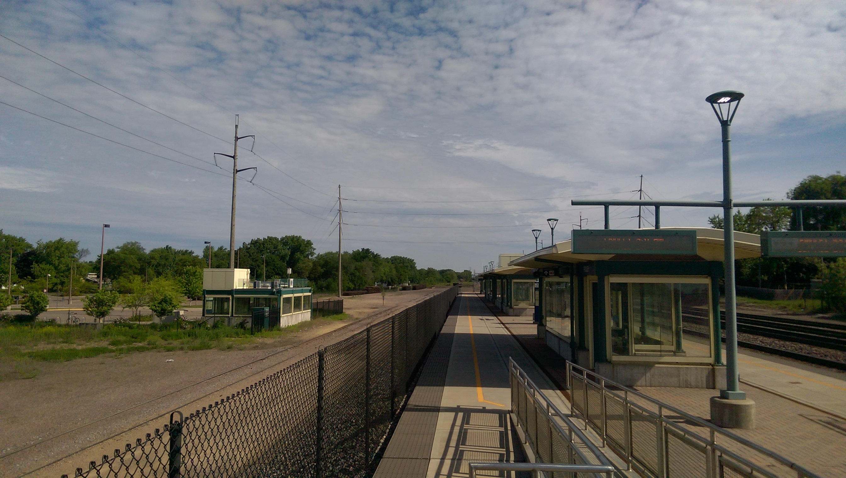 Looking north at the Northstar station in Fridley, Minnesota, United States.